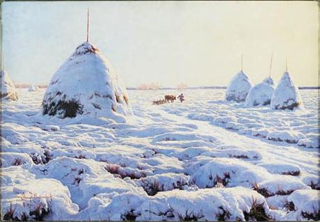 Snow by Henryk Weyssenhoff, 1894